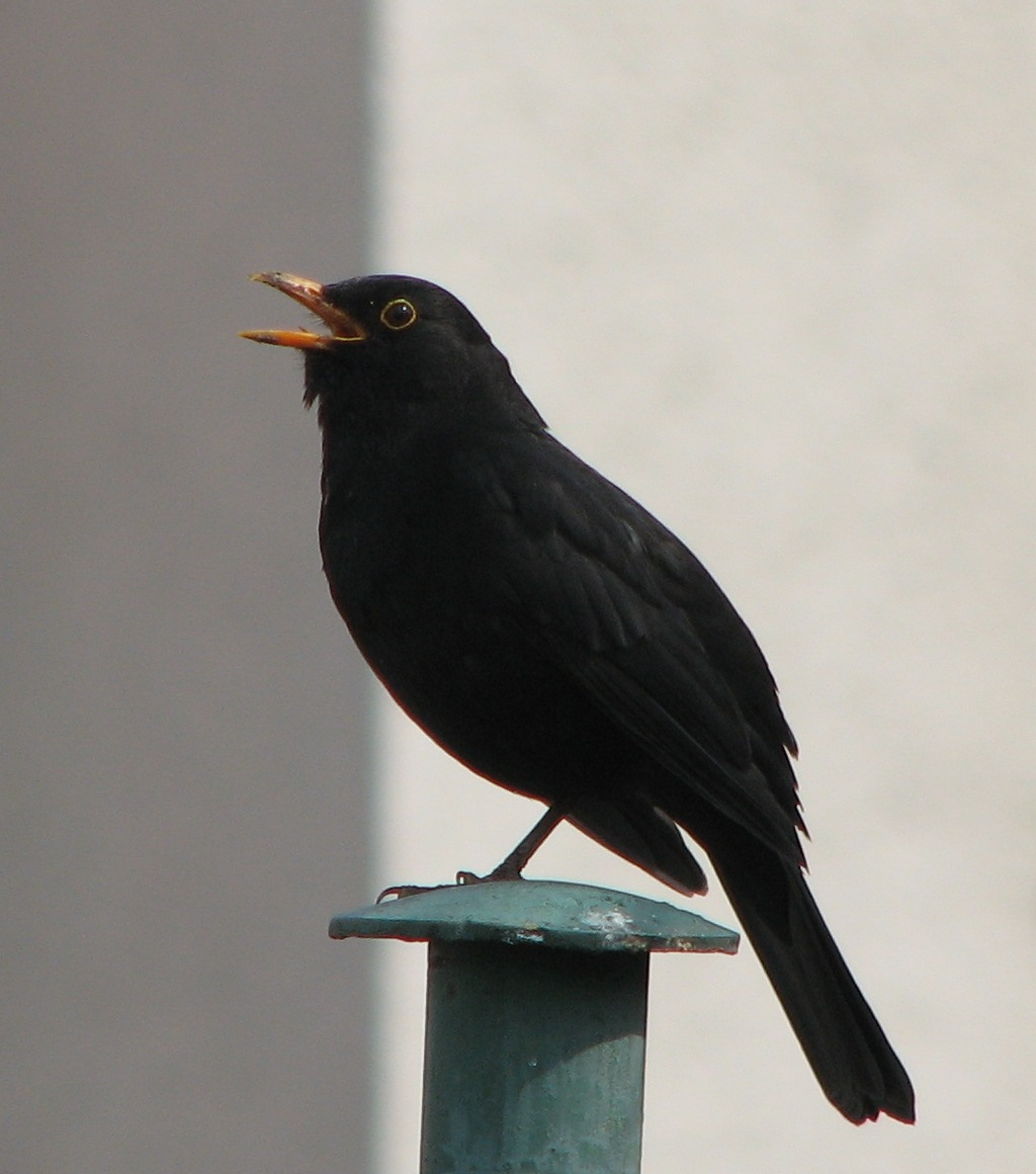 Male blackbird, singing